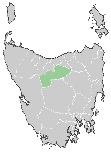 Map of LGA Meander Valley of Tasmania, Australia